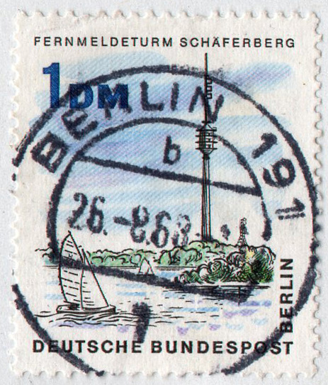 series "The new Berlin"